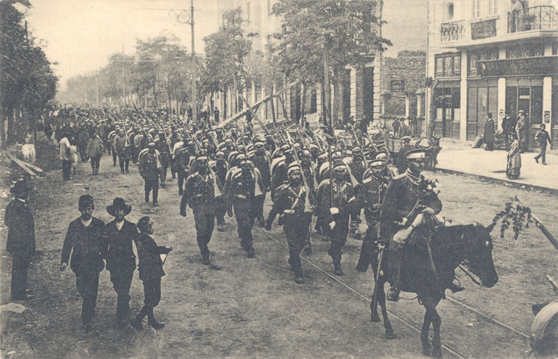 6th Infantry Regiment (Bulgaria) at the streets of Sofia.